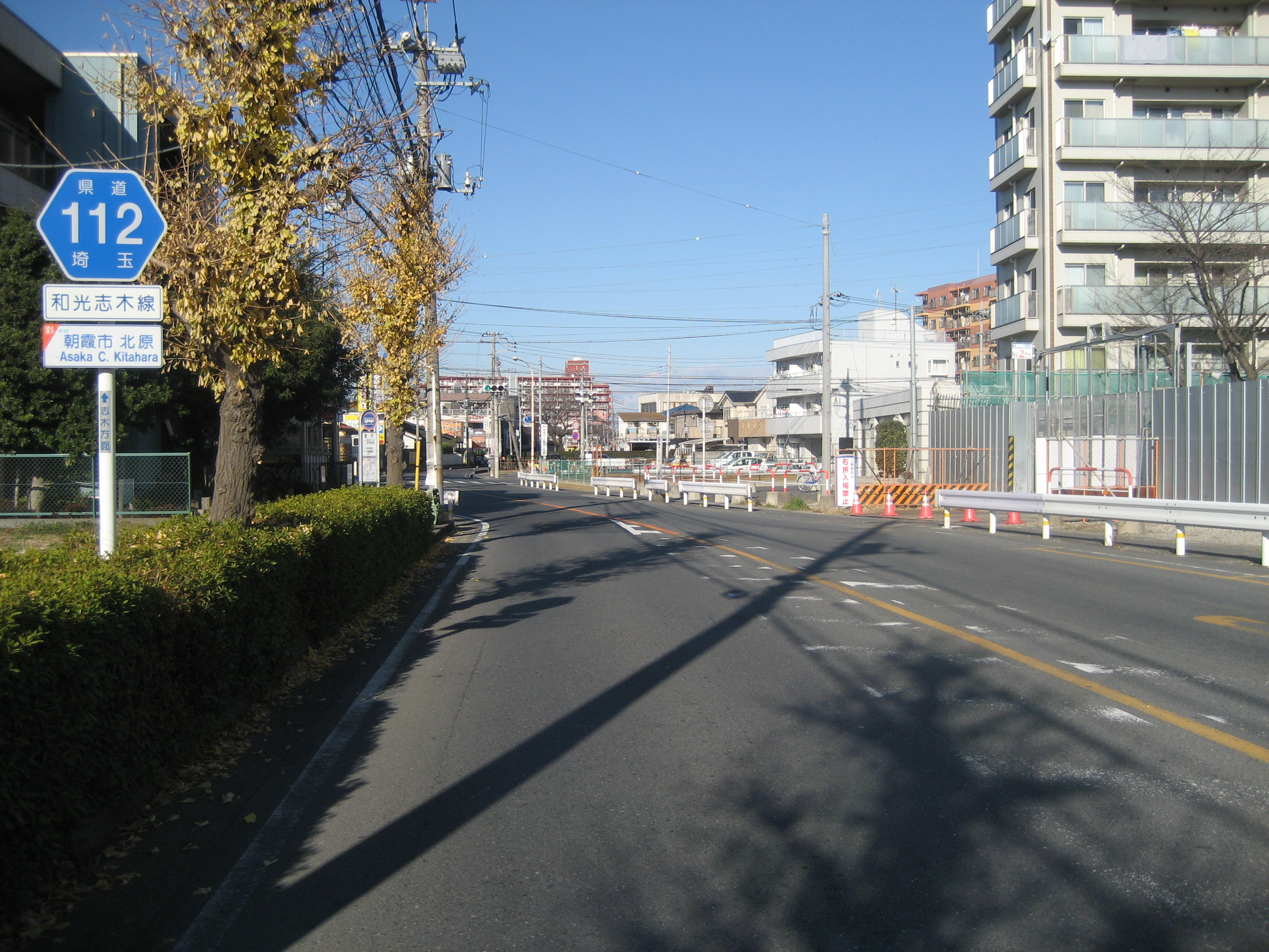 The Saitama Prefectural Road Route 112 in Kitahara, Asaka City